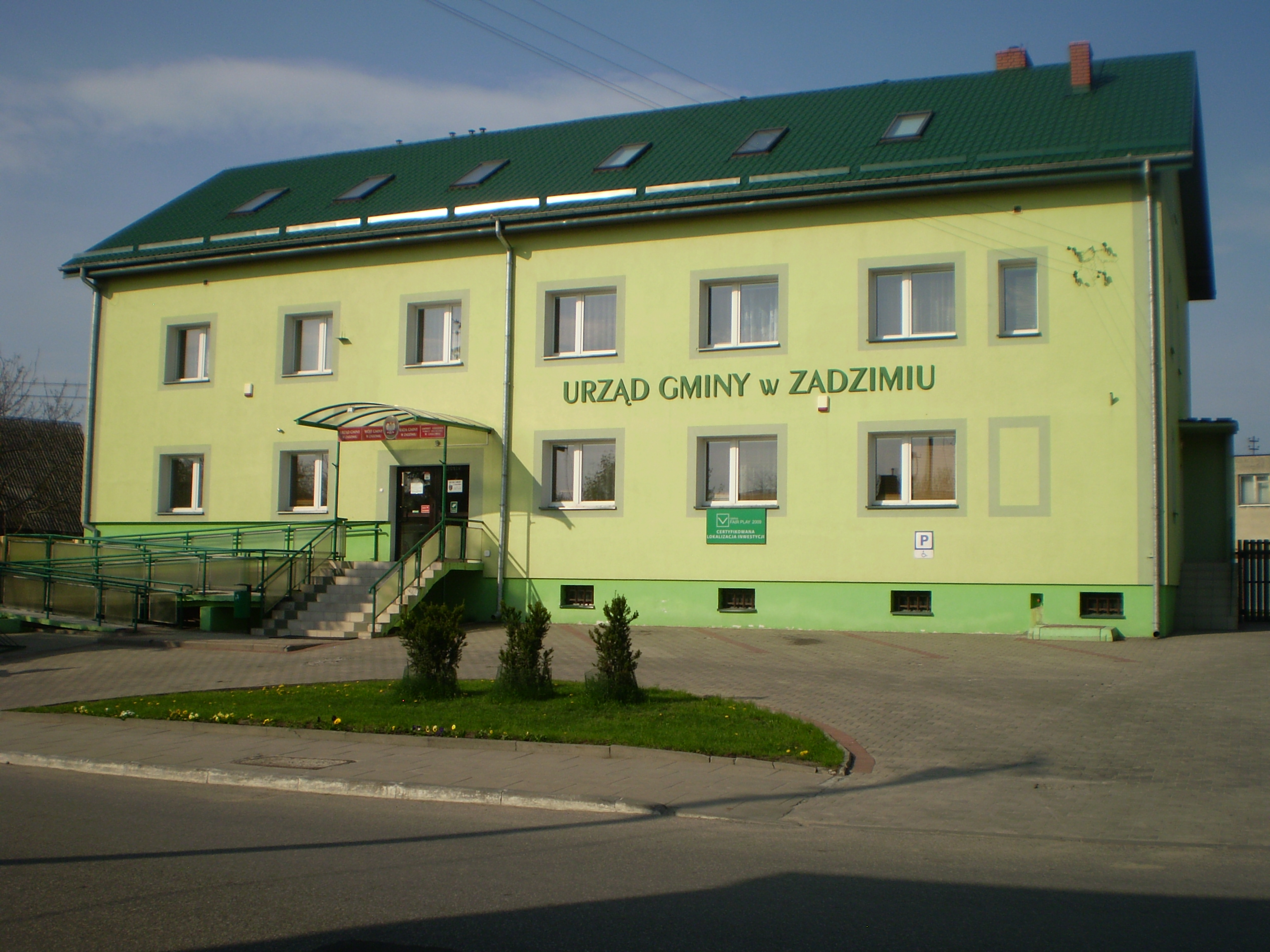 Urząd gminy w Zadzimiu